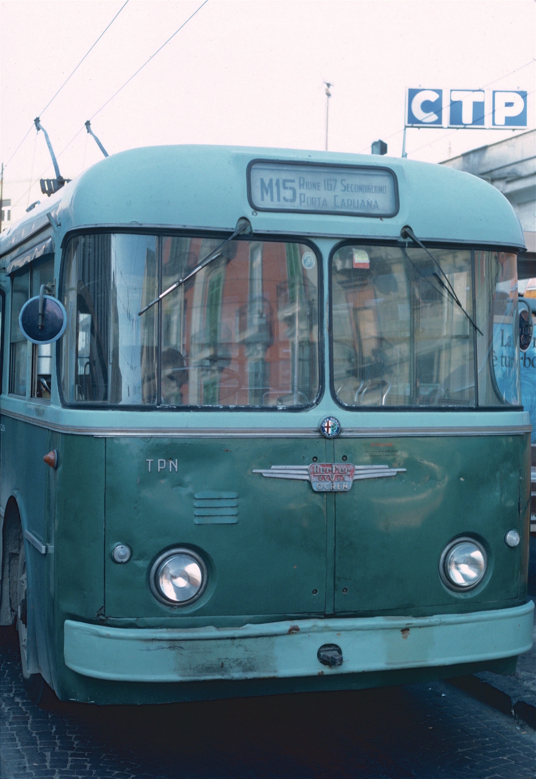 CTP trolleybus 18, a 1962 Alfa Romeo 1000AF / Aerfer-UTVES / OCREN trolleybus, at CTP's Porta Capuana bus station (on Piazza San Francesco), in service on route M15 to Secondigliano/Rione 167, in 1985. Although CTP had begun to refurbish its trolleybuses by this date, including repainting from two-tone green to orange, No. 18 was unrefurbished, and its front end still showed (in small letters) "TPN", the name of CTP's predecessor before a 1978 reorganisation. The "Porta Capuana" terminal closed in 1991, to permit construction of an underground parking garage on the site.